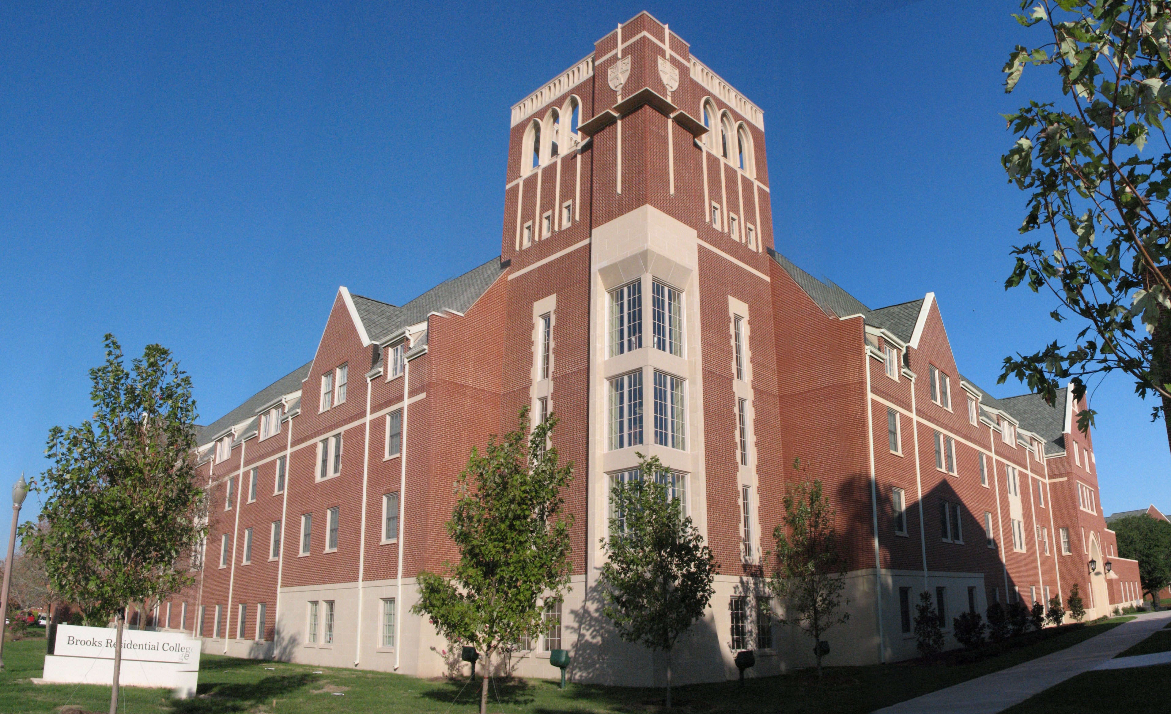 Premiere Housing for Baylor University on campus housing.